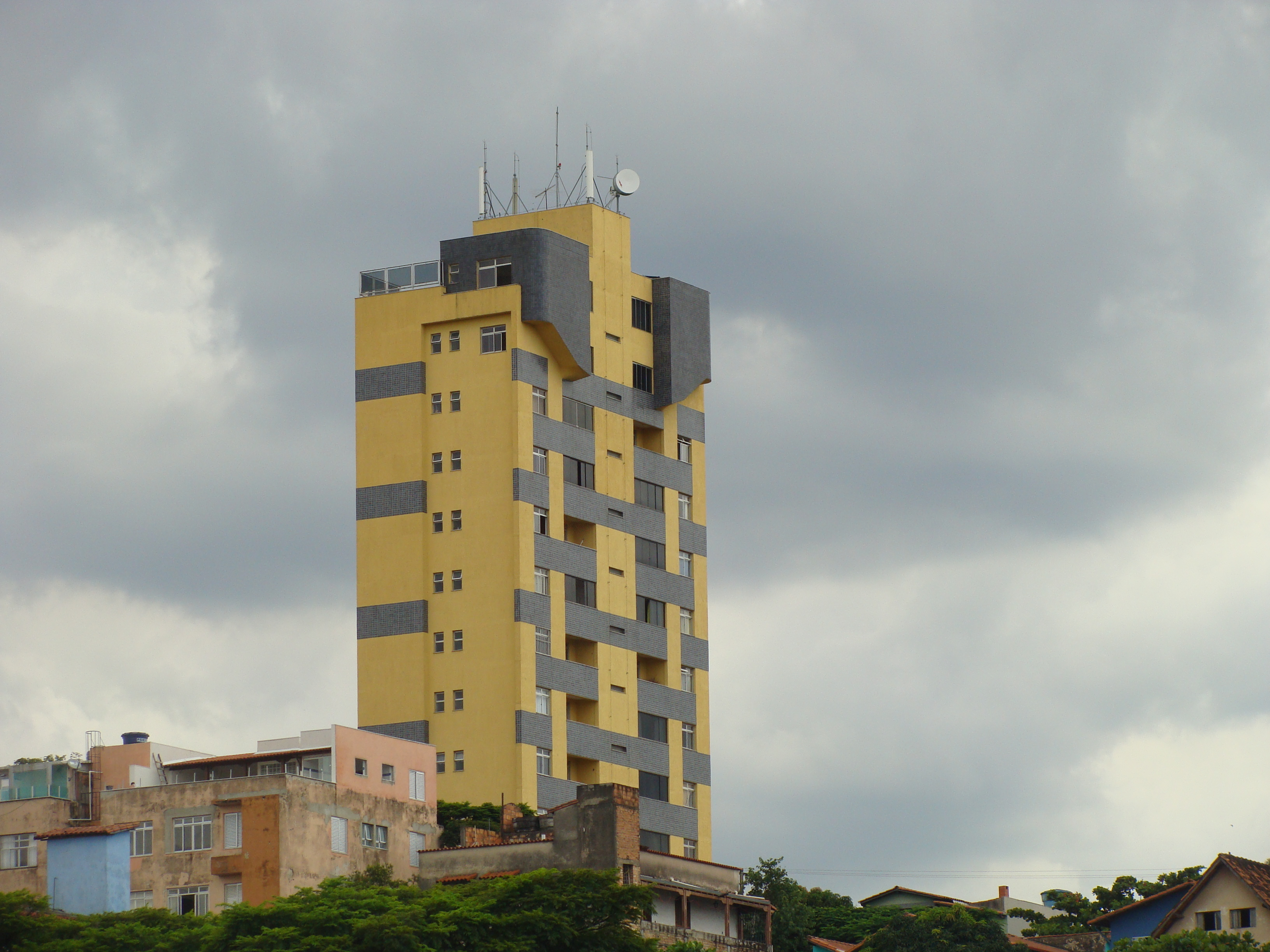 Building